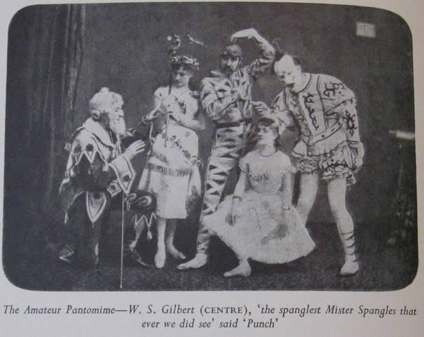 1878 Photo of W.S. Gilbert as harlequin in The Forty Thieves.